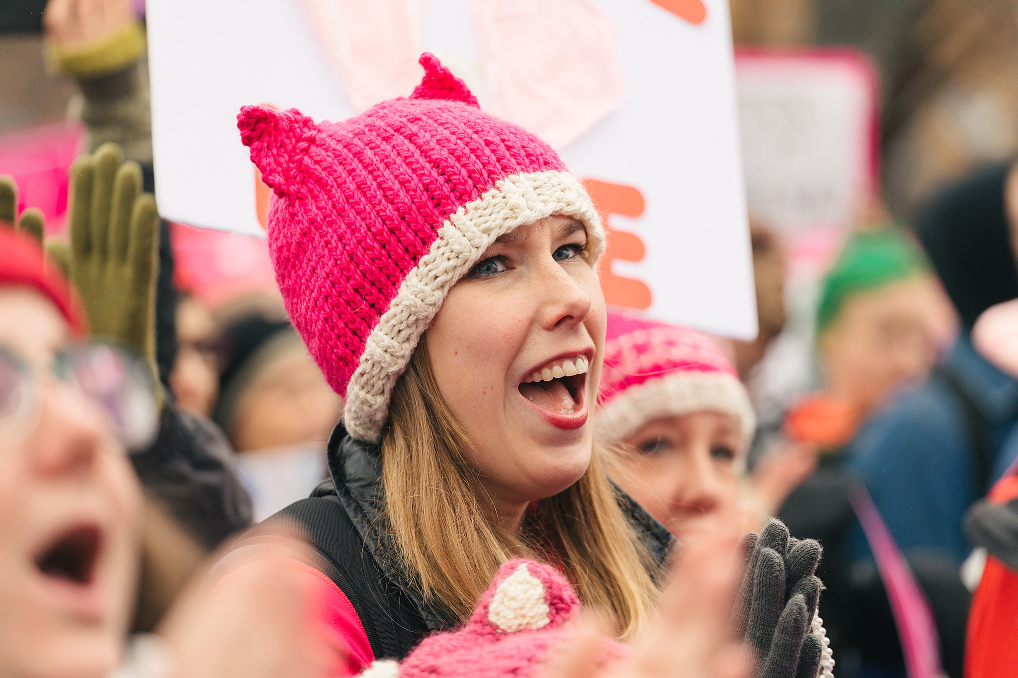 A woman cheers during the Madison WI rally for the Women's March on January 21 2017